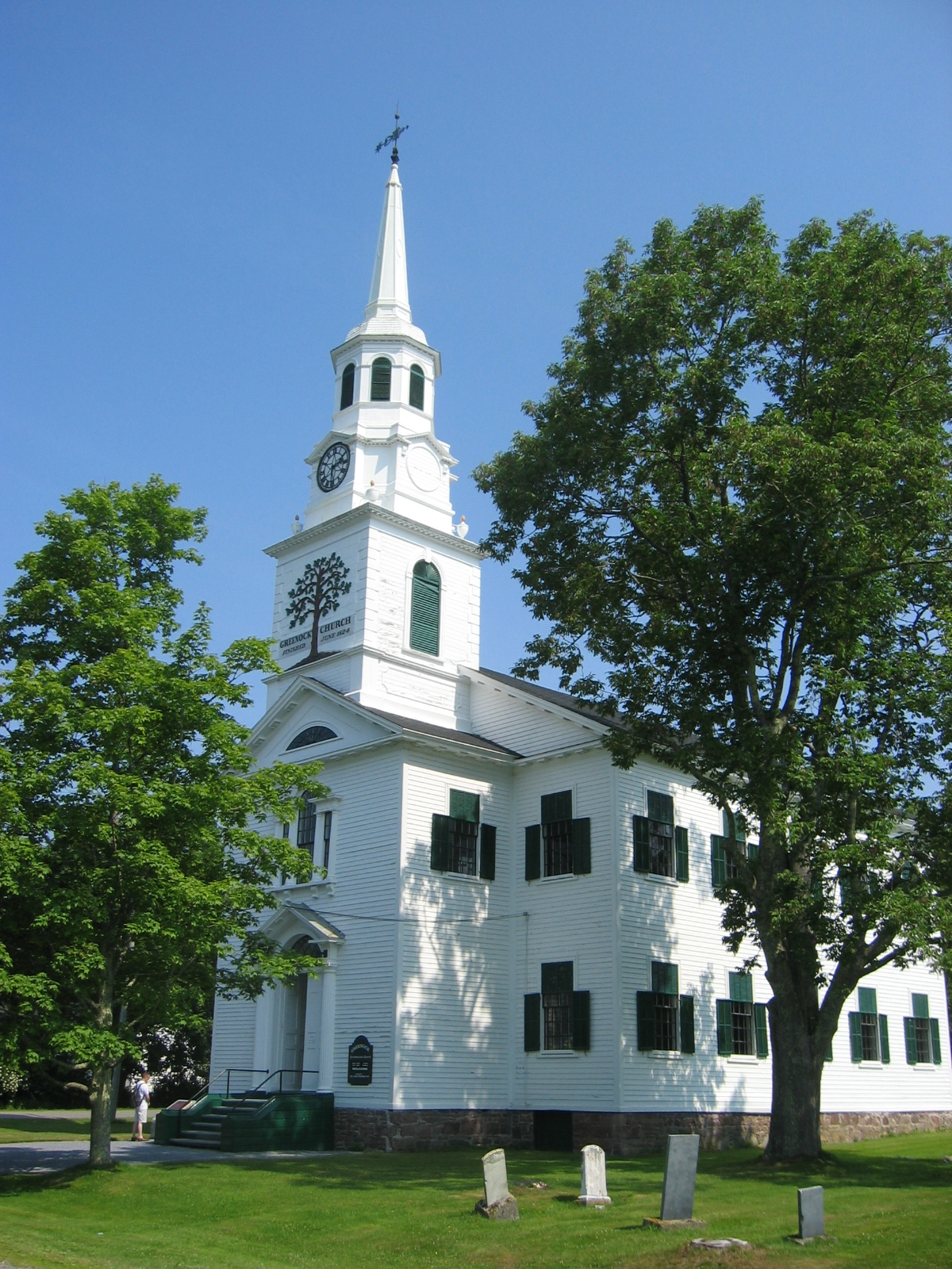 Greenock Church, established in 1824, in St. Andrews, Canada (Presbyterian).